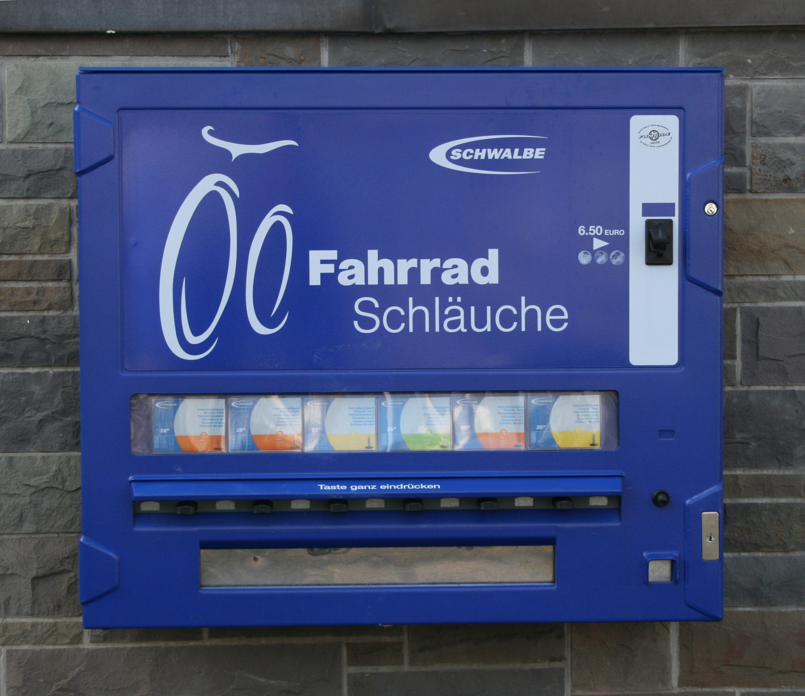 vending machine for bicycle tubes, photographed in Bad Berleburg, Germany